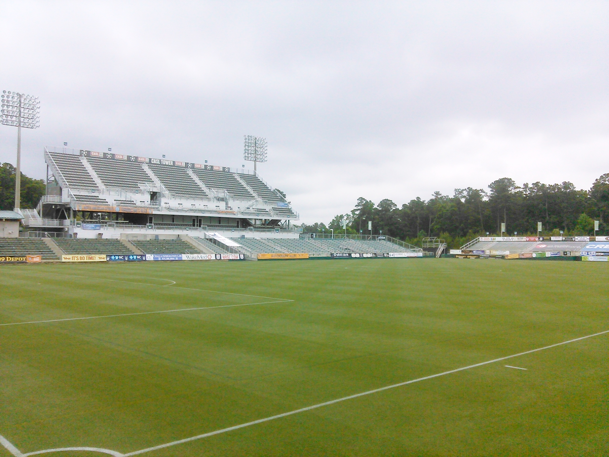 WakeMed Soccer Park in 2013